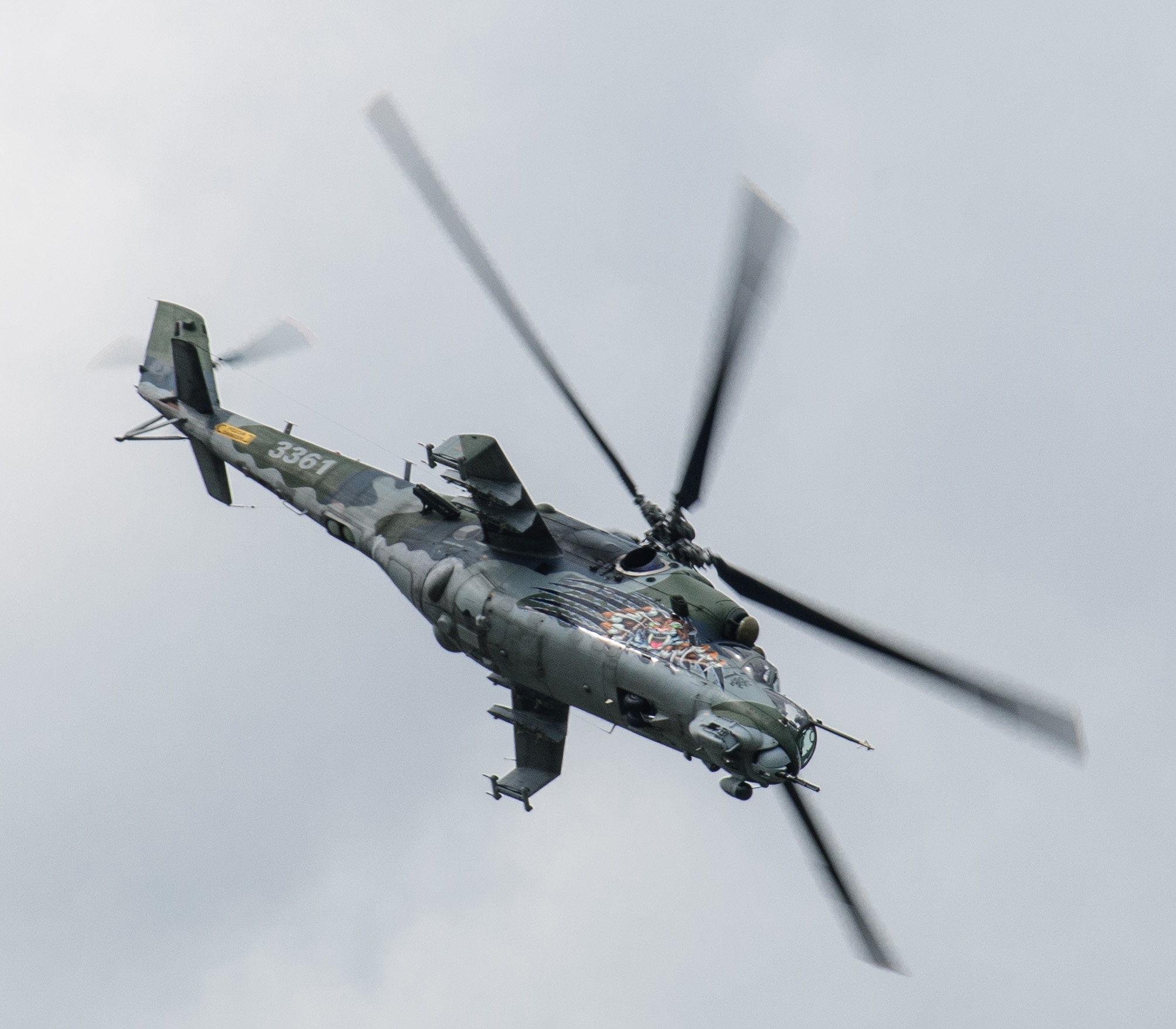 Helicopters NL Air Force Days